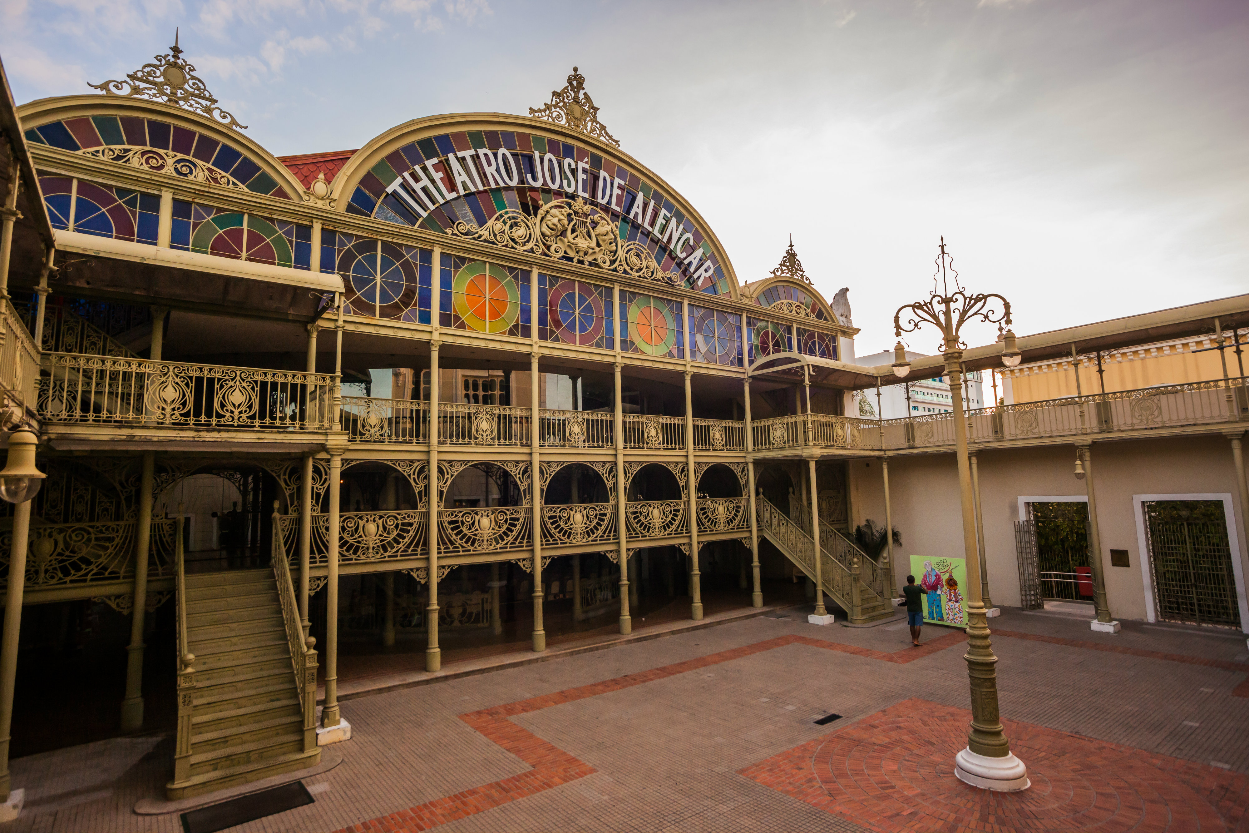 José de Alencar Theatre